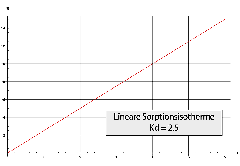 Illustrates a linear sorption isotherm.